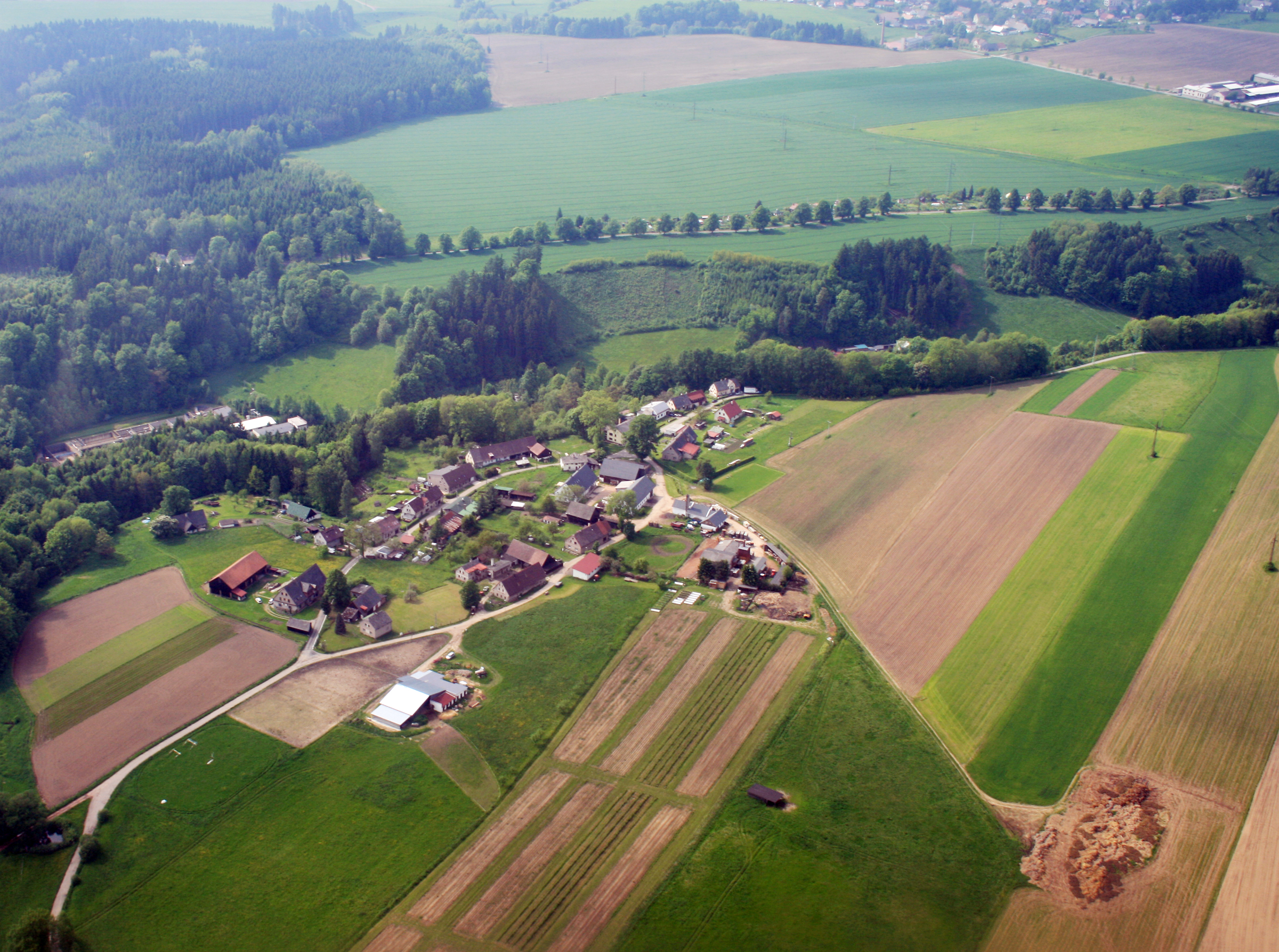 Village Radešov from air, eastern Bohemia, Czech Republic